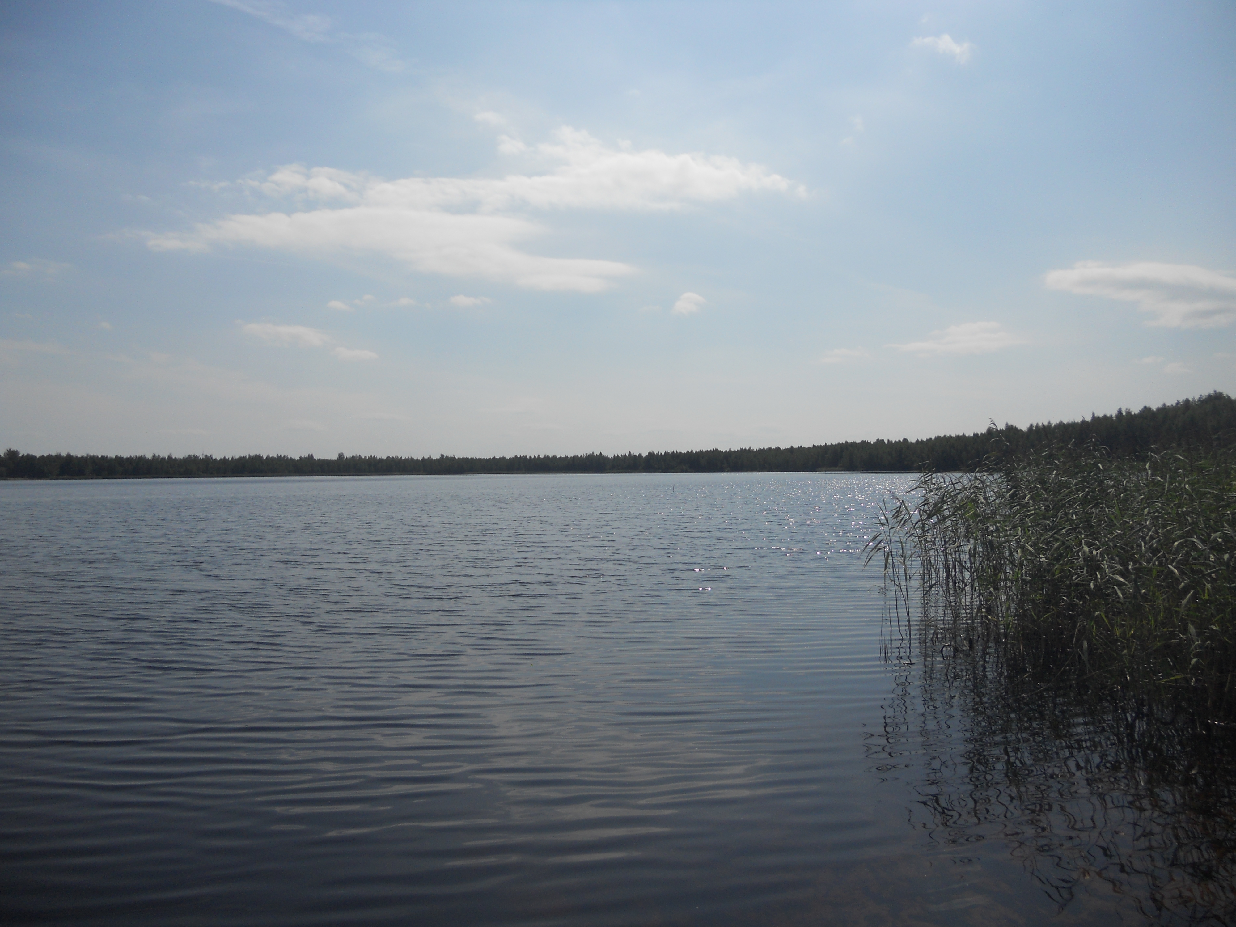 Lake Matsiarynskae, Belarus